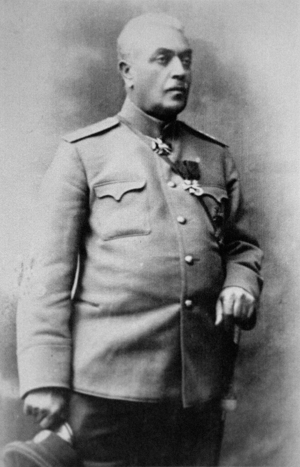 Armenian militaru figure (1885-1928).